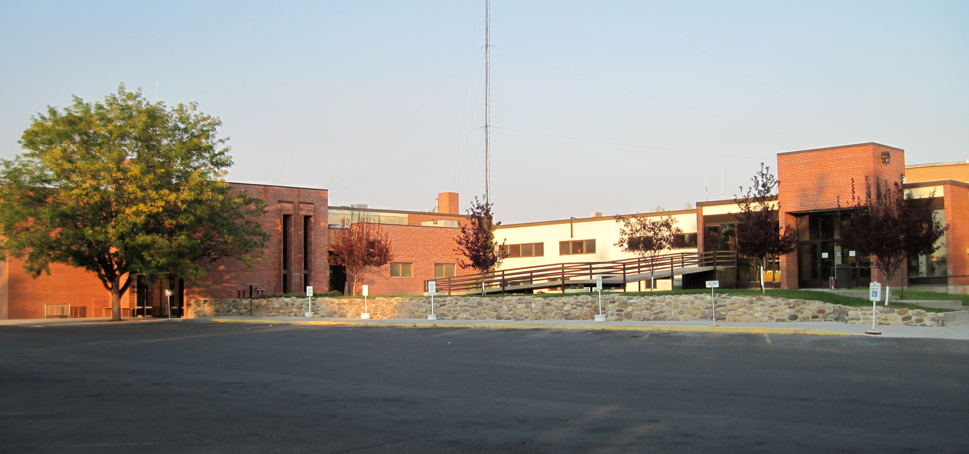 The Fremont County Courthouse in Lander, Wyoming, from the courthouse lawn.